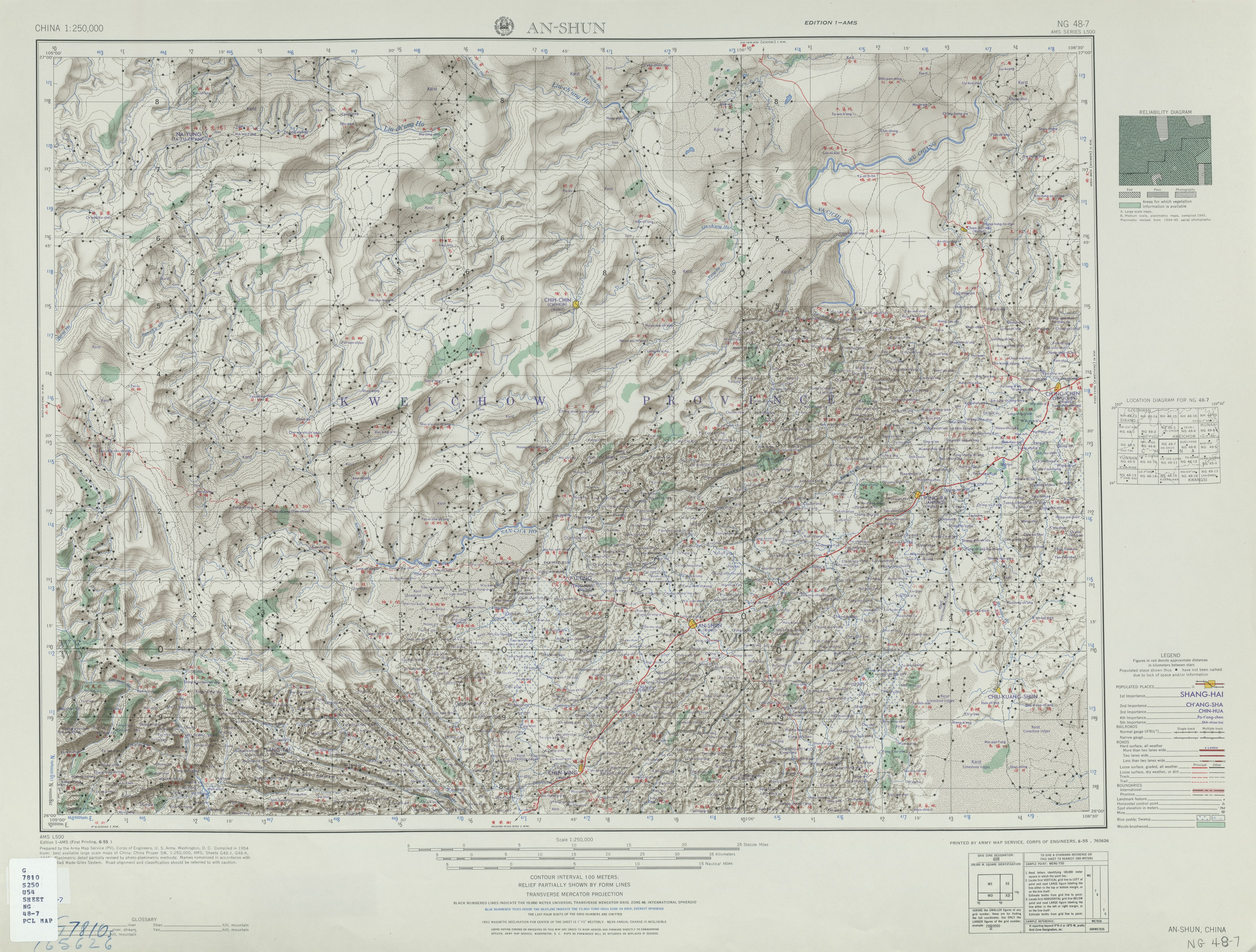 China AMS Topographic Maps